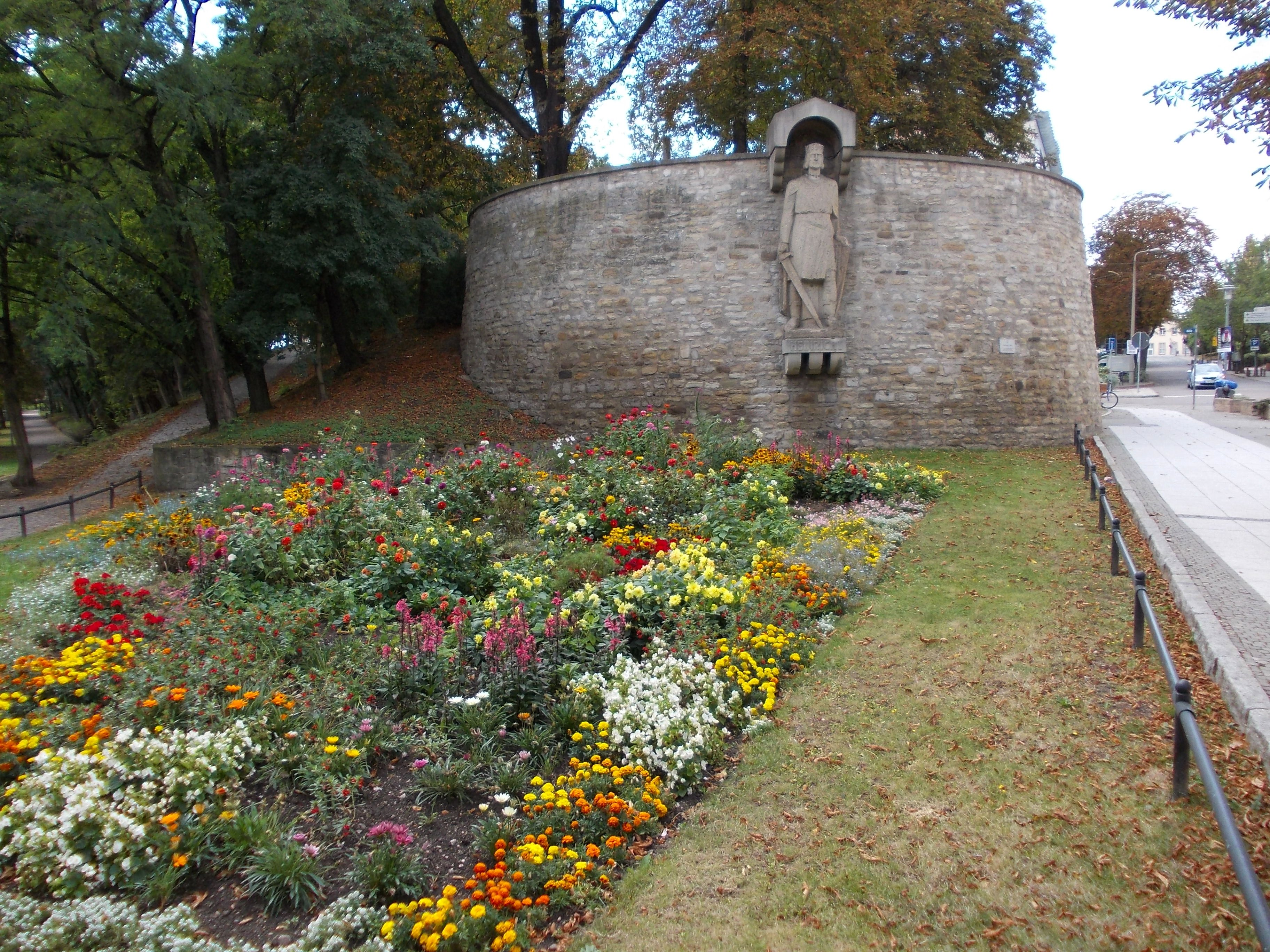 Altenburg Bulwark in Merseburg (district of Saalekreis, Saxony-Anhalt) with memorial to King Henry I